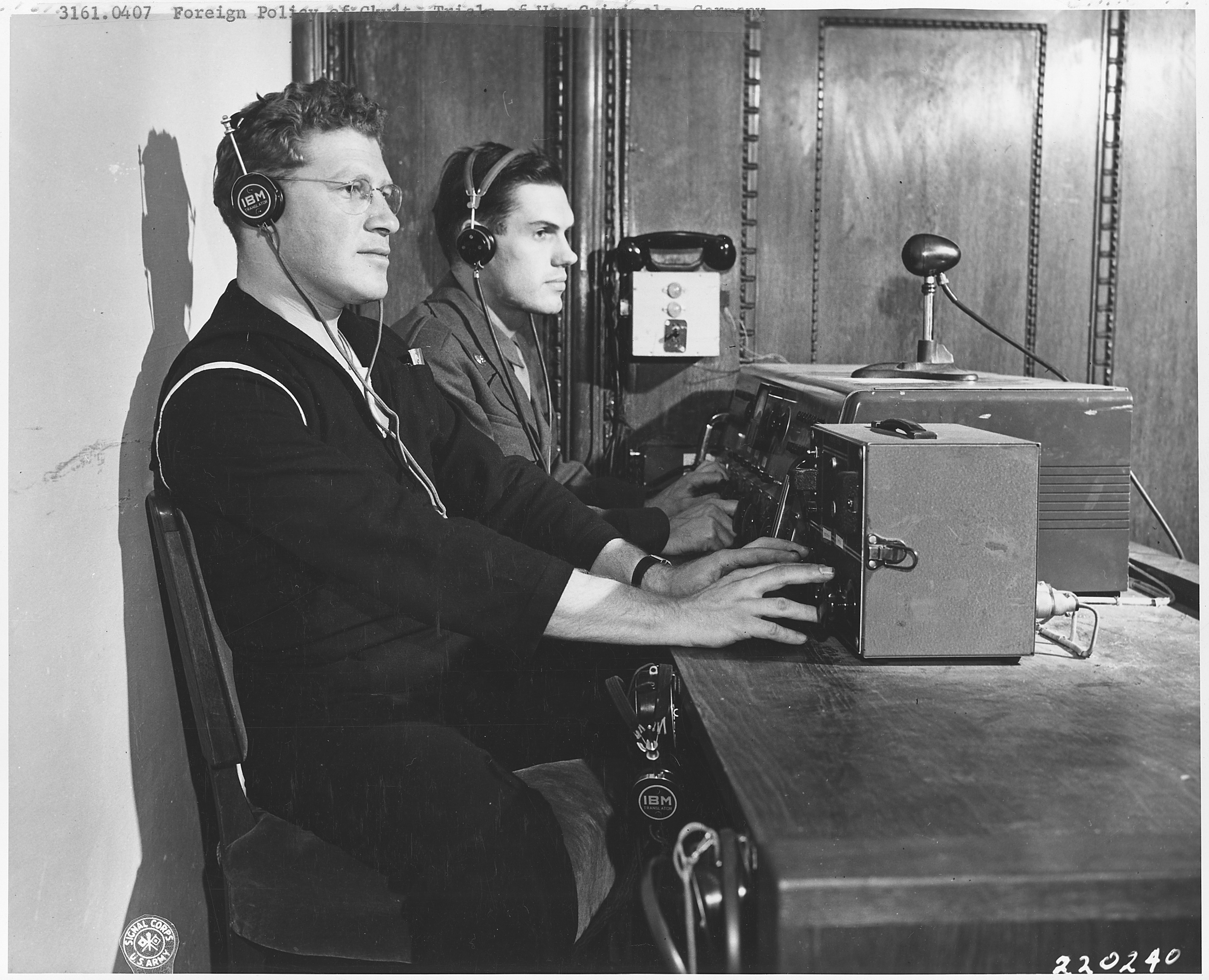 Scope and content: Seaman 2/C Herbert M. Greenspon of Bridgeport, Conn., and Pvt. Philip C. Erhorn of Garden City, Long Island, New York, operate the interpreting Device in the court room of the Palace of Justice, Nuernberg, Germany. The disk and film recording is controlled through this panel. 11/19/45.